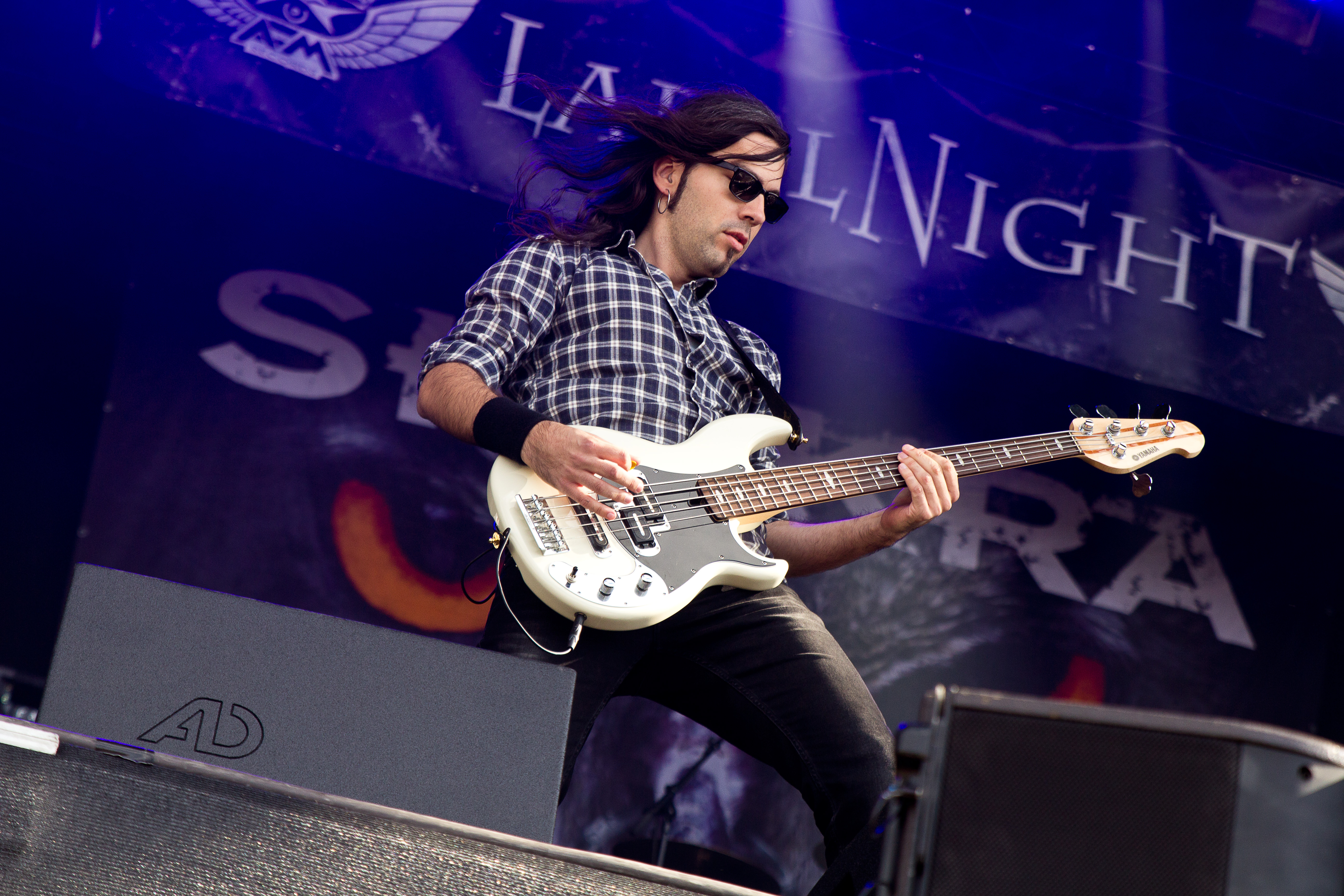 The Swiss hard rock band Shakra at the Rockharz Open Air 2016 in Ballenstedt/Germany.